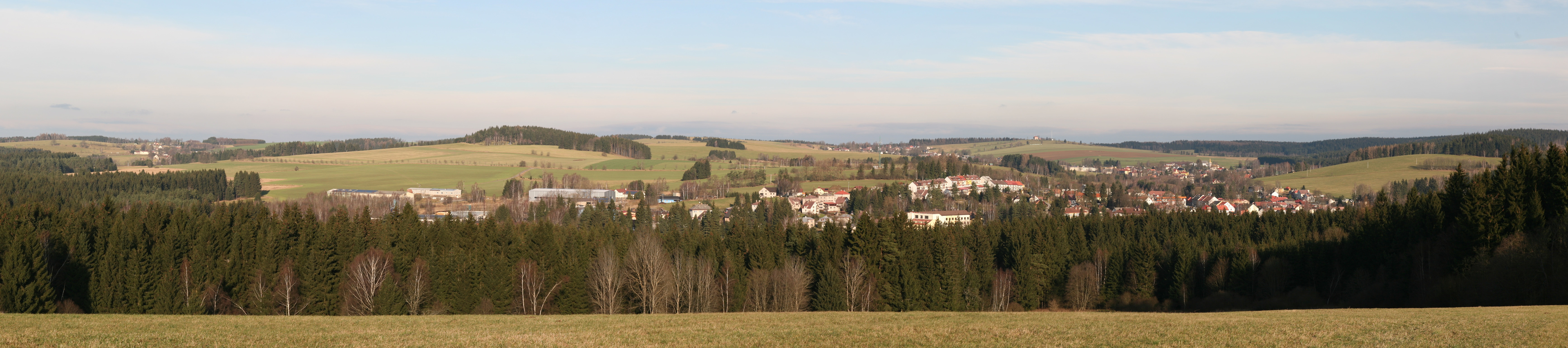 Svratka is a small town in the Vysočina Region of the Czech Republic. View from hill above Moravská Svratka (administrative part of Svratka).